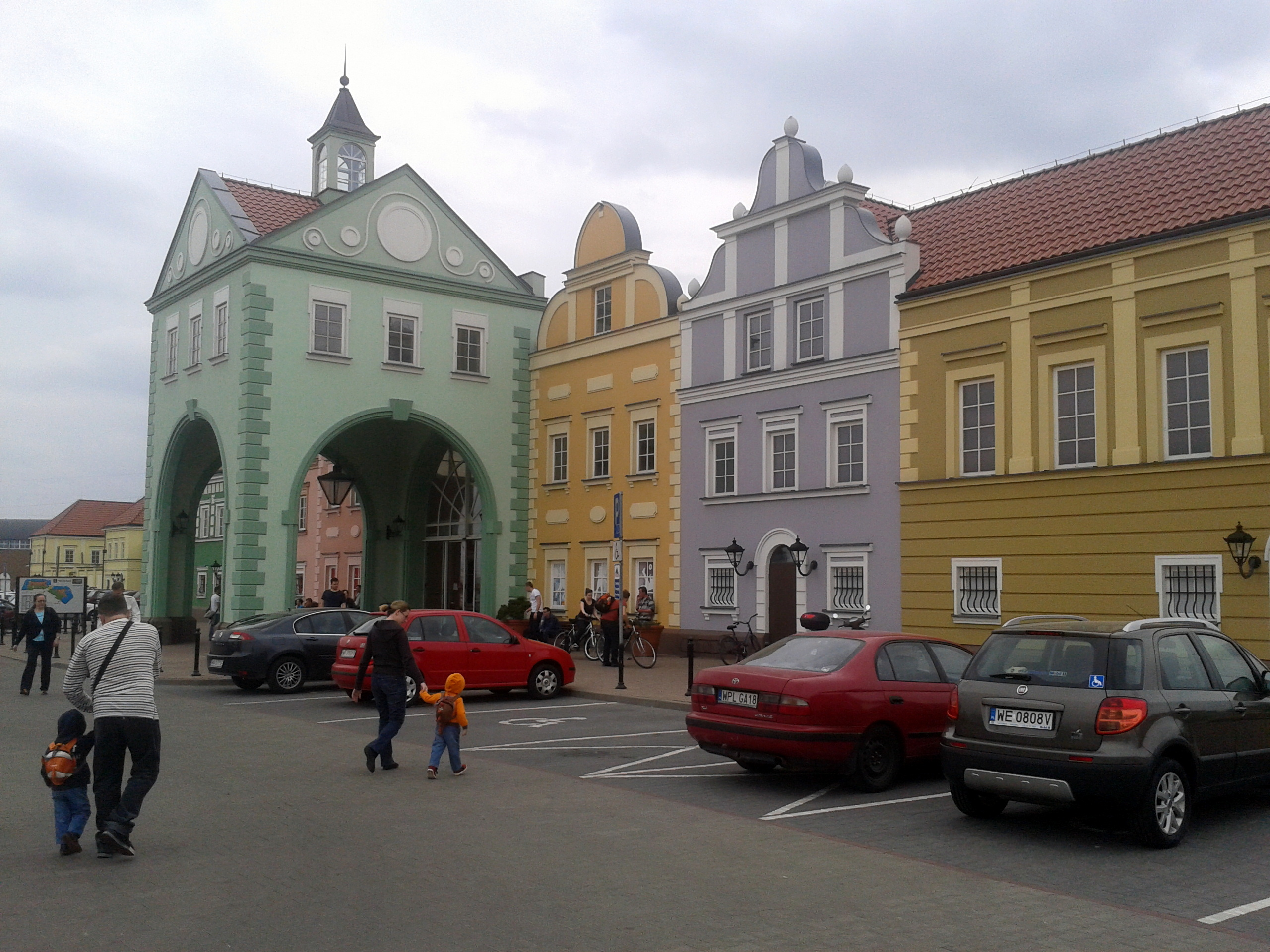 Shopping centre: Fashion House Outlet Centre, open in Piaseczno in 2005